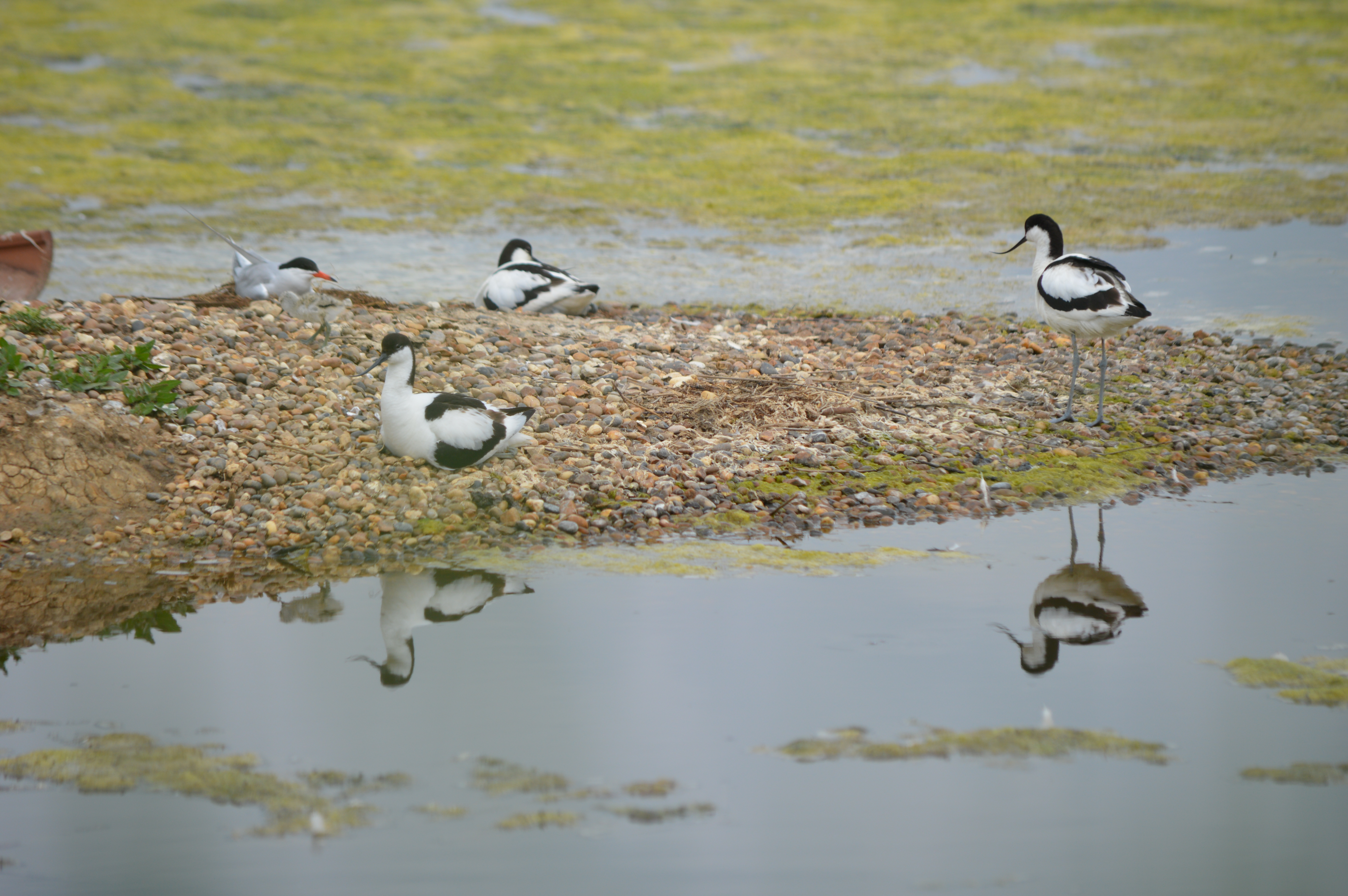 Blue House Farm is a nature reserve and farm managed by the Essex Wildlife Trust. It is part of the 'Crouch and Roach Estuaries' Site of Special Scientific Interest.